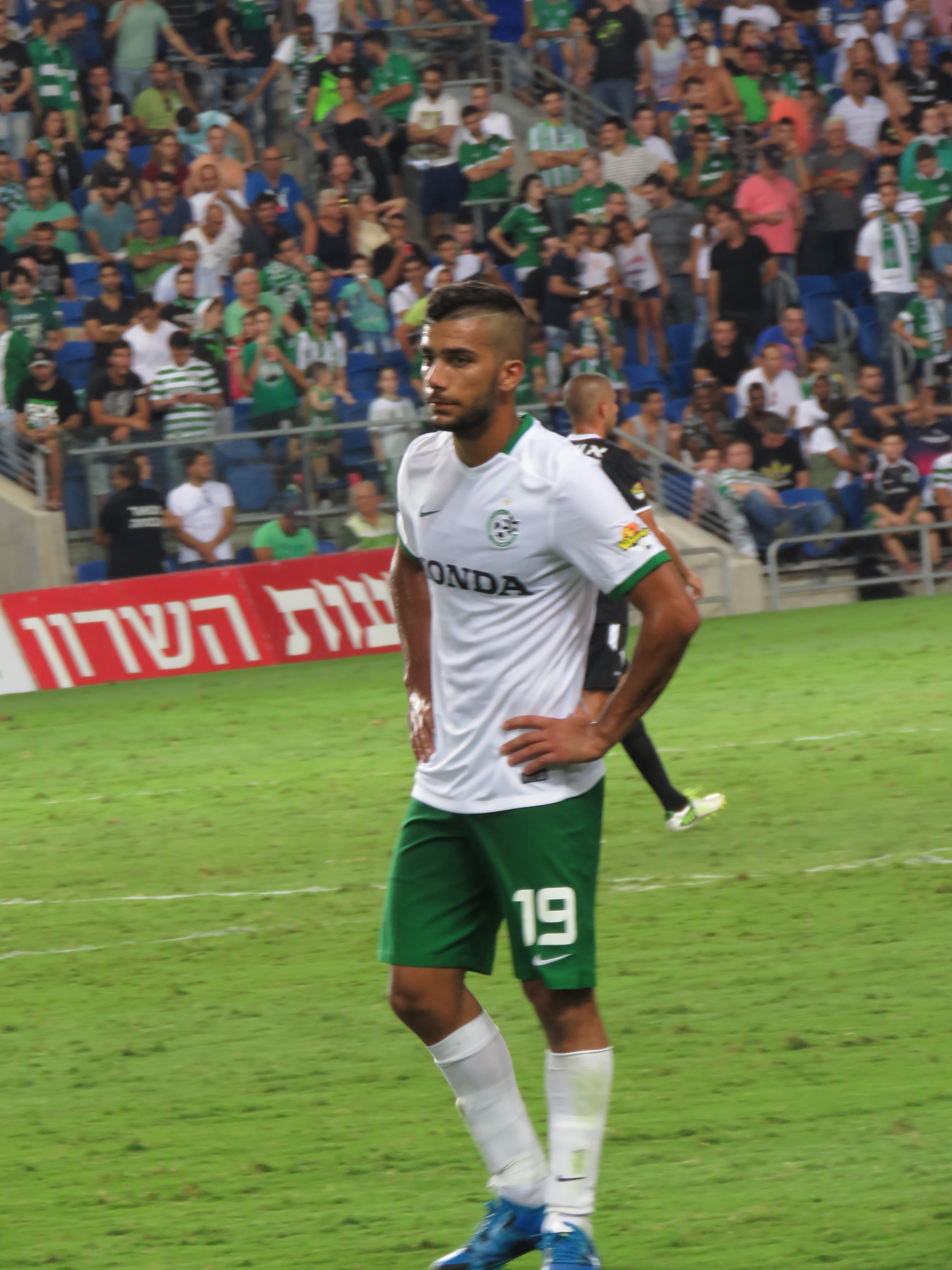 Shoval Gozlan, Maccabi Haifa. Hapoel Ra'anana vs. Maccabi Haifa F.C., 3 October, 2015